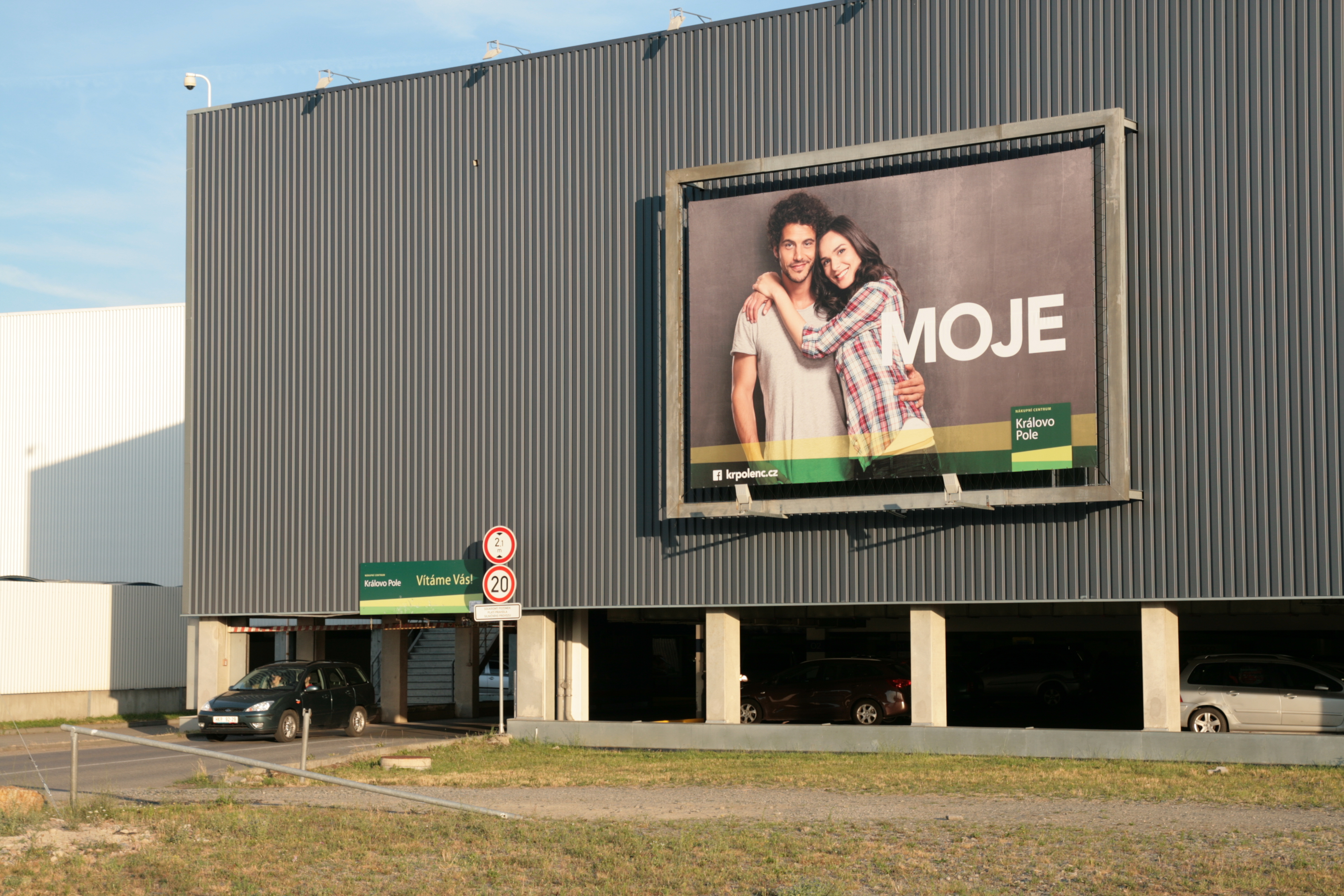 Shopping centre Královo Pole in Brno, Czech Republic.